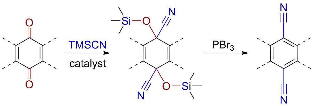 General scheme for the synthesis of cyanoarenes from quinones